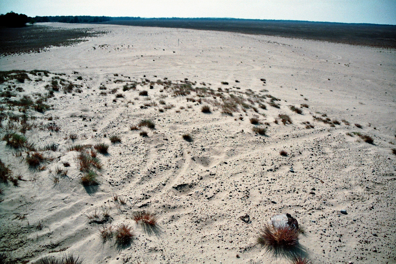 Lieberose Desert (Lieberoser Wüste) in the Lieberoser Heide near Lieberose, Landkreis Dahme-Spreewald, Brandenburg, Germany. It is Germany's largest desert. (Photo taken on a guided tour.)